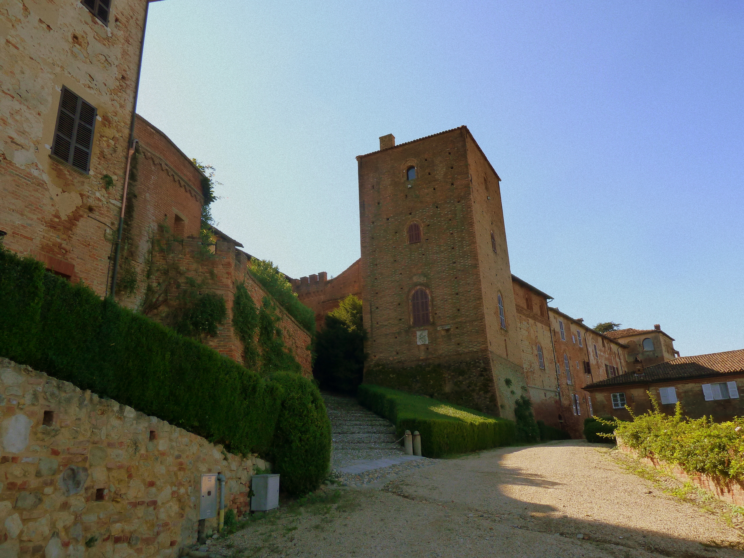 castle of passerano